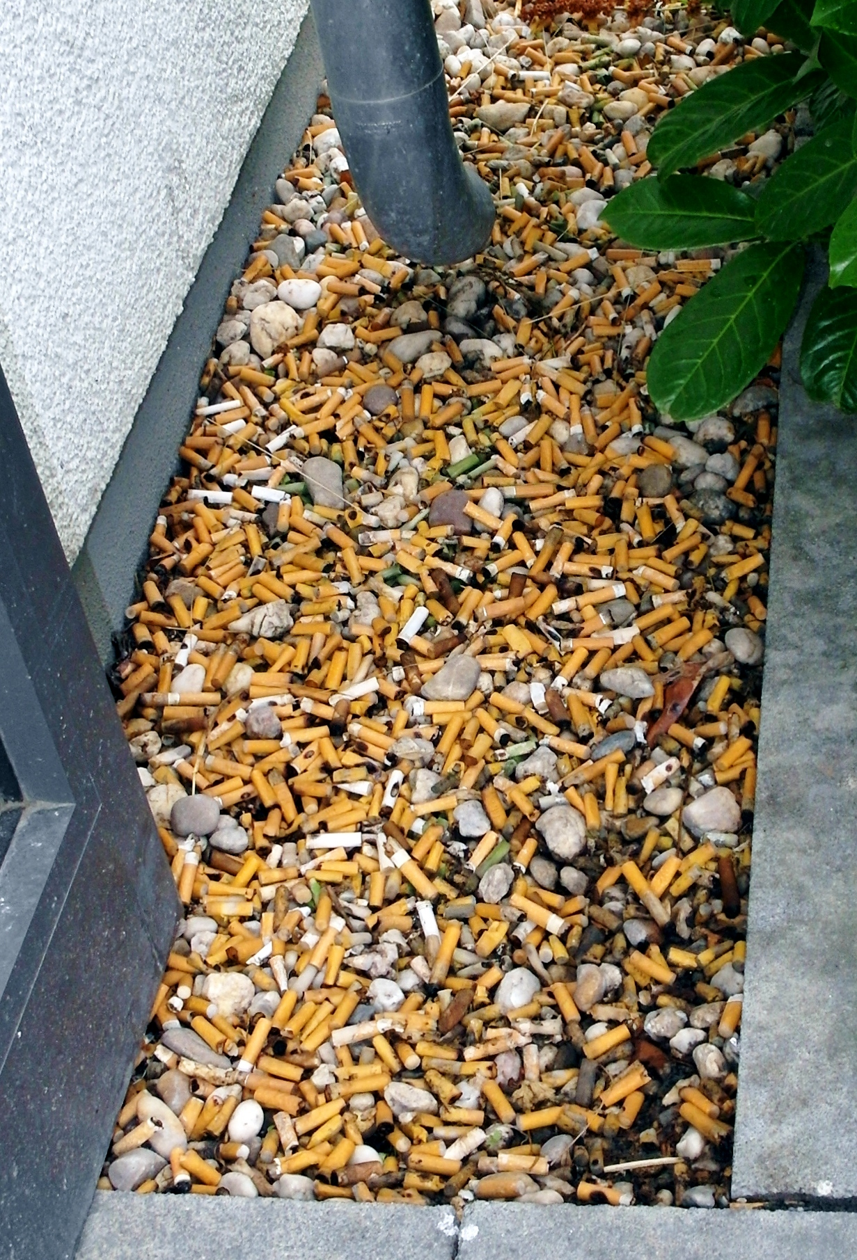 Cigarette butts on the ground near the entrance of an emergency hospital with a no-smoking policy; Germany